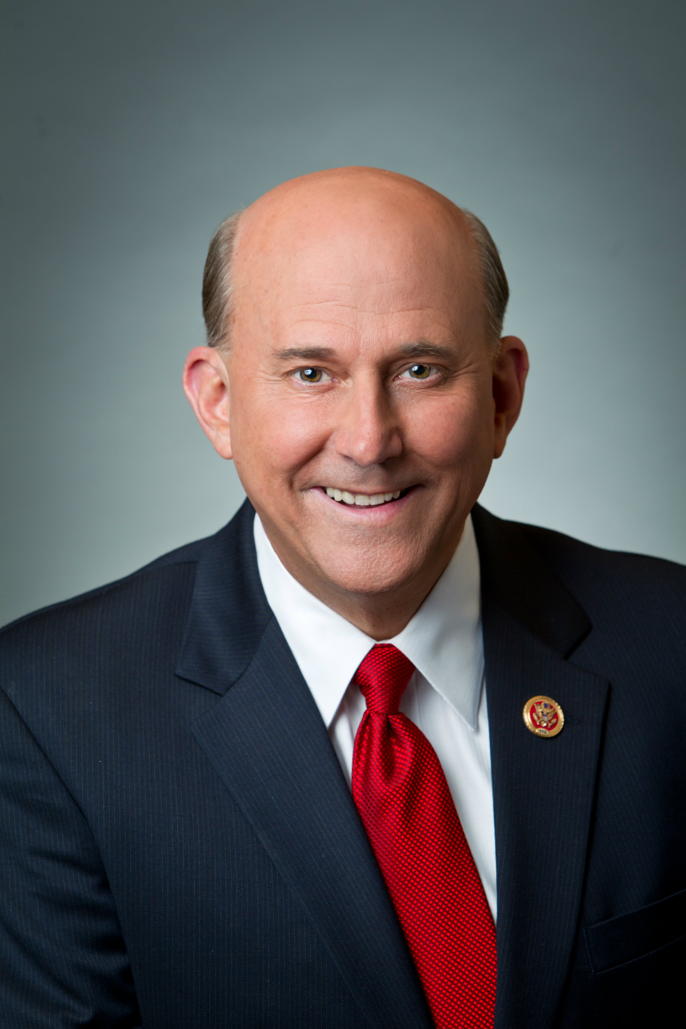 US Rep Louie Gohmert